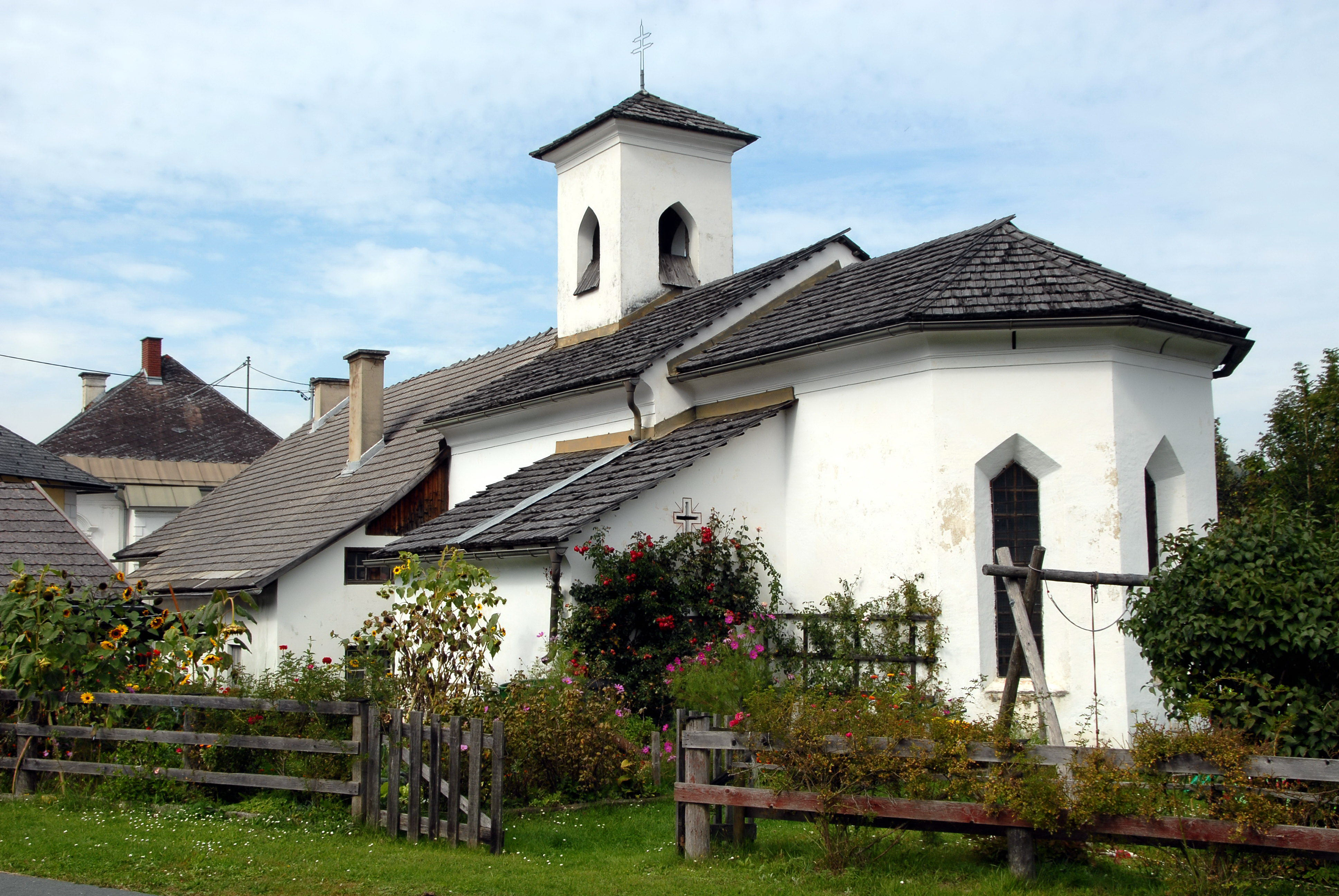 Subsidiary church Holy Anna at Kirschentheuer in the municipality Ferlach, district Klagenfurt-Land, Carinthia, Austria